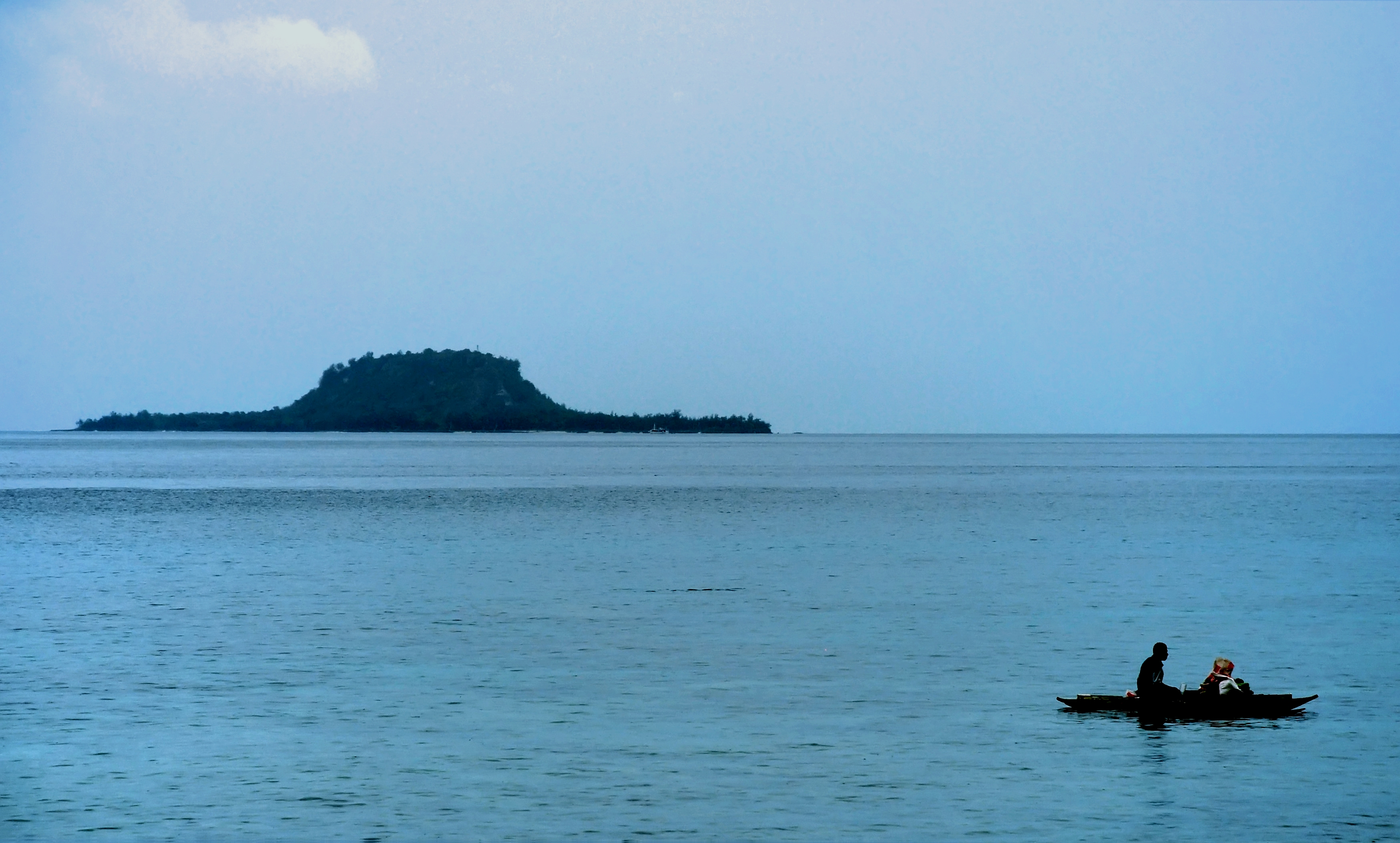 Eretoka (Hat Island). Where Roy Mata'a mass burial took place